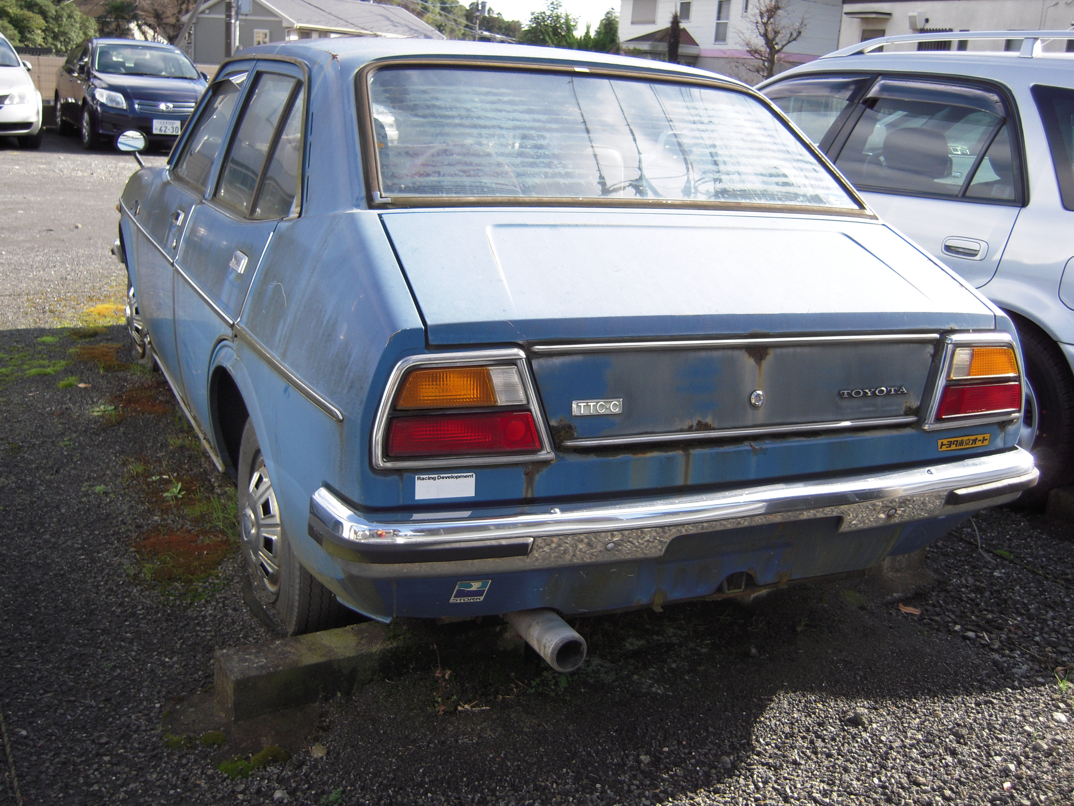 Toyota Starlet P40 or P50